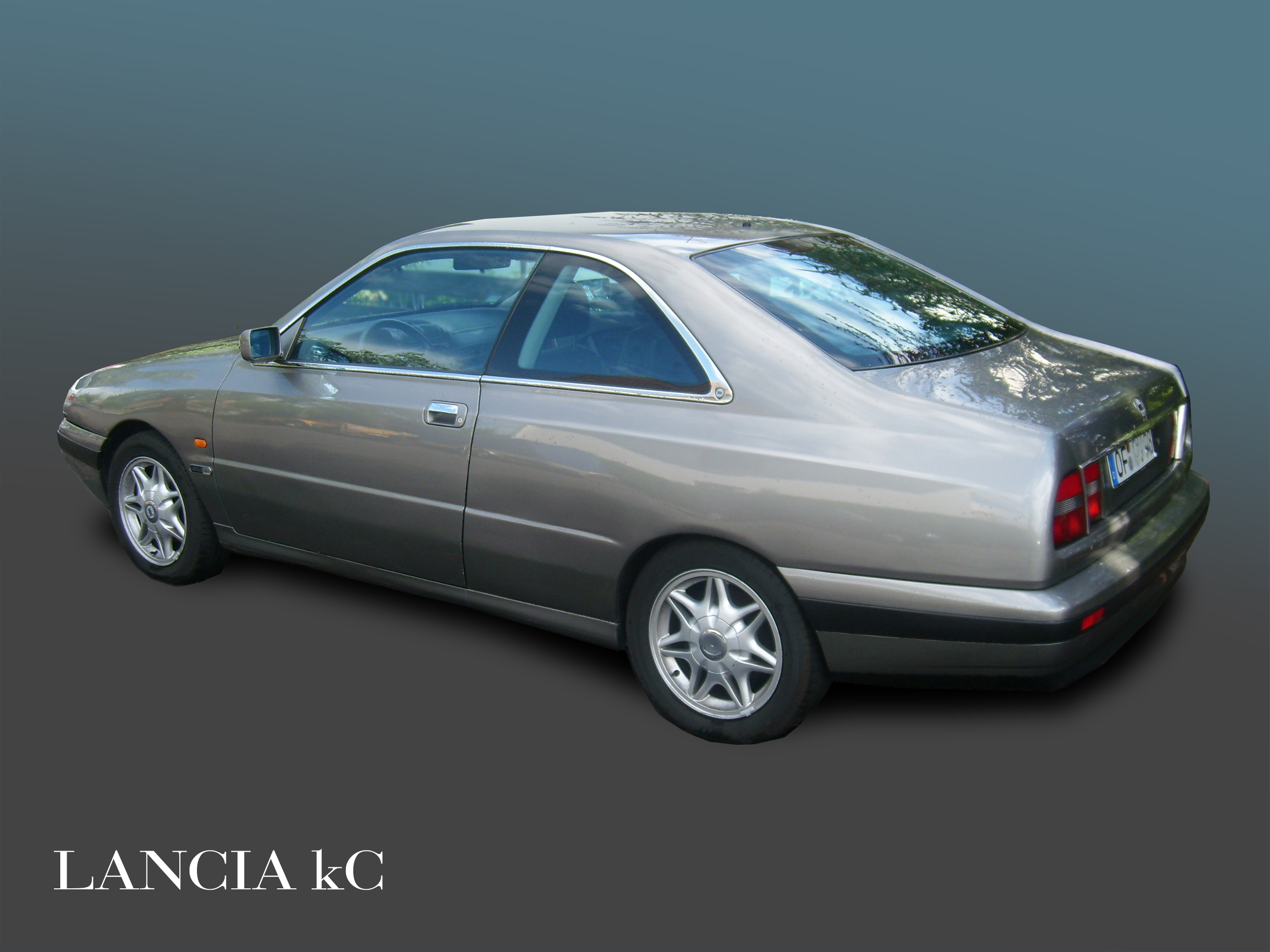 Lancia Kappa Coupé (1997-2000) produced by Maggiora